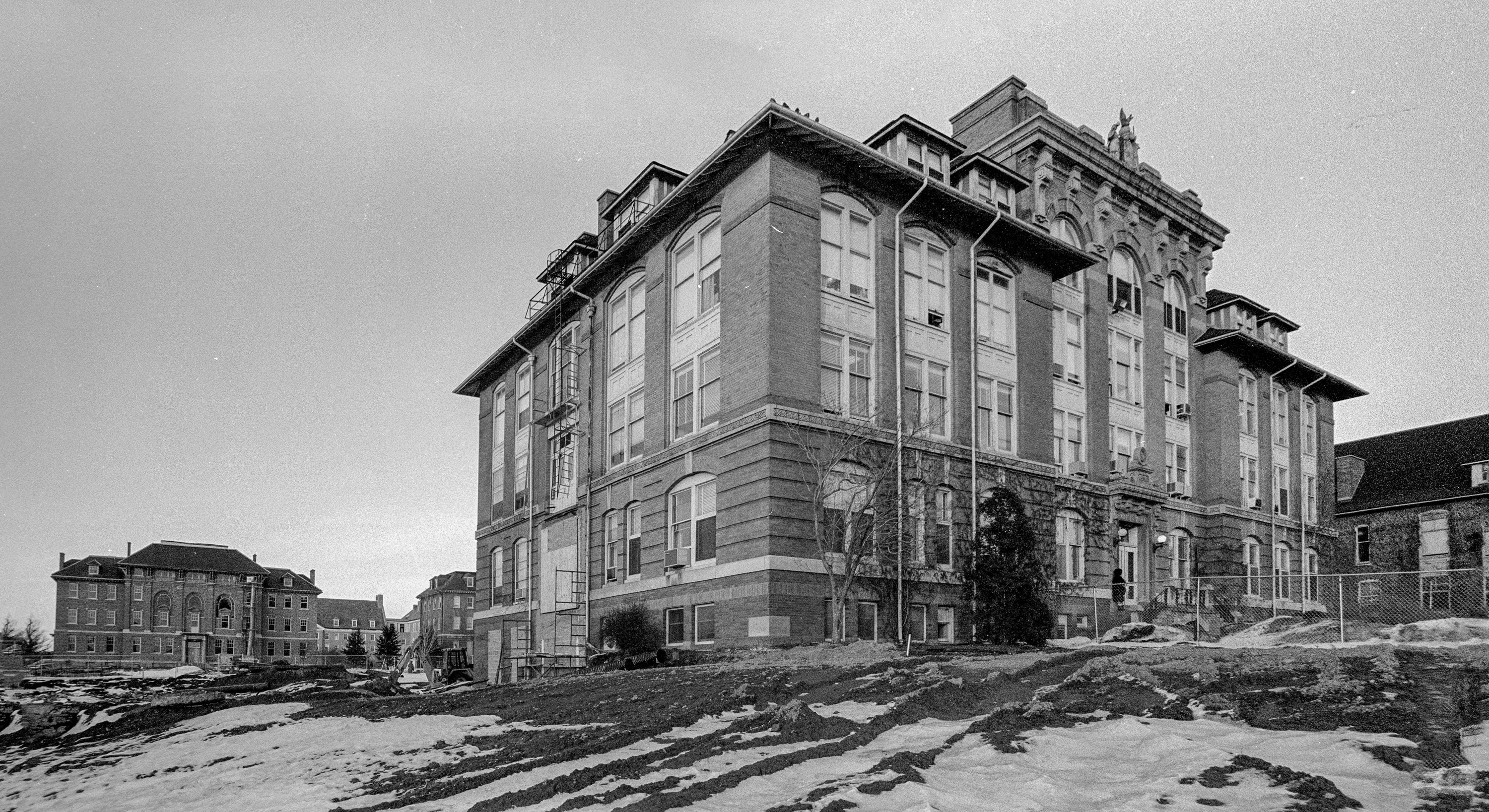 Roberts Hall to the right; empty space where Stone Hall used to be. Old Comstock Hall (Computing and Communications Center) in background. Taken 1987.